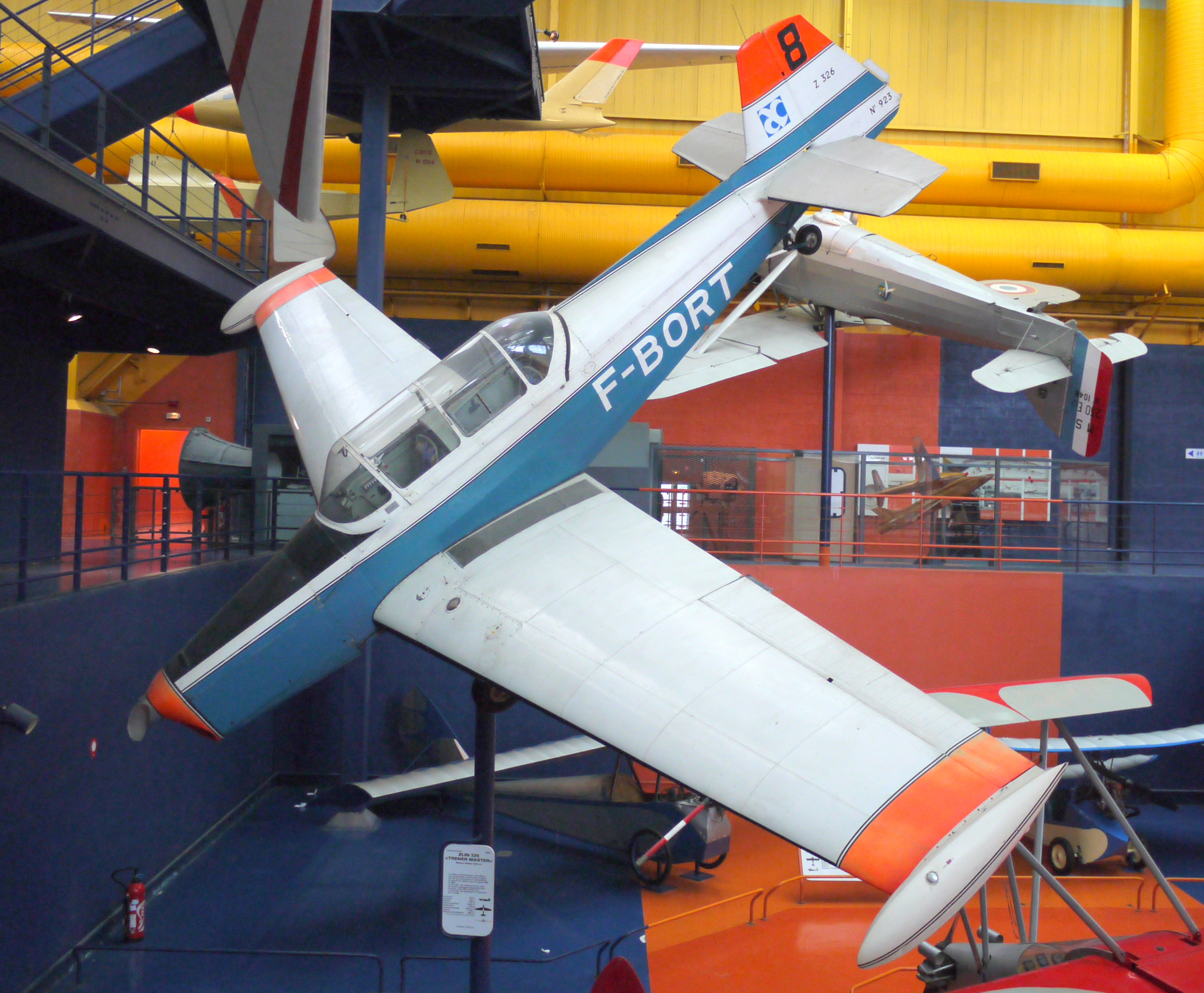 Aerobatic aircraft Zlin 236 (1957), Museum of Air and Space Paris, Le Bourget (France)